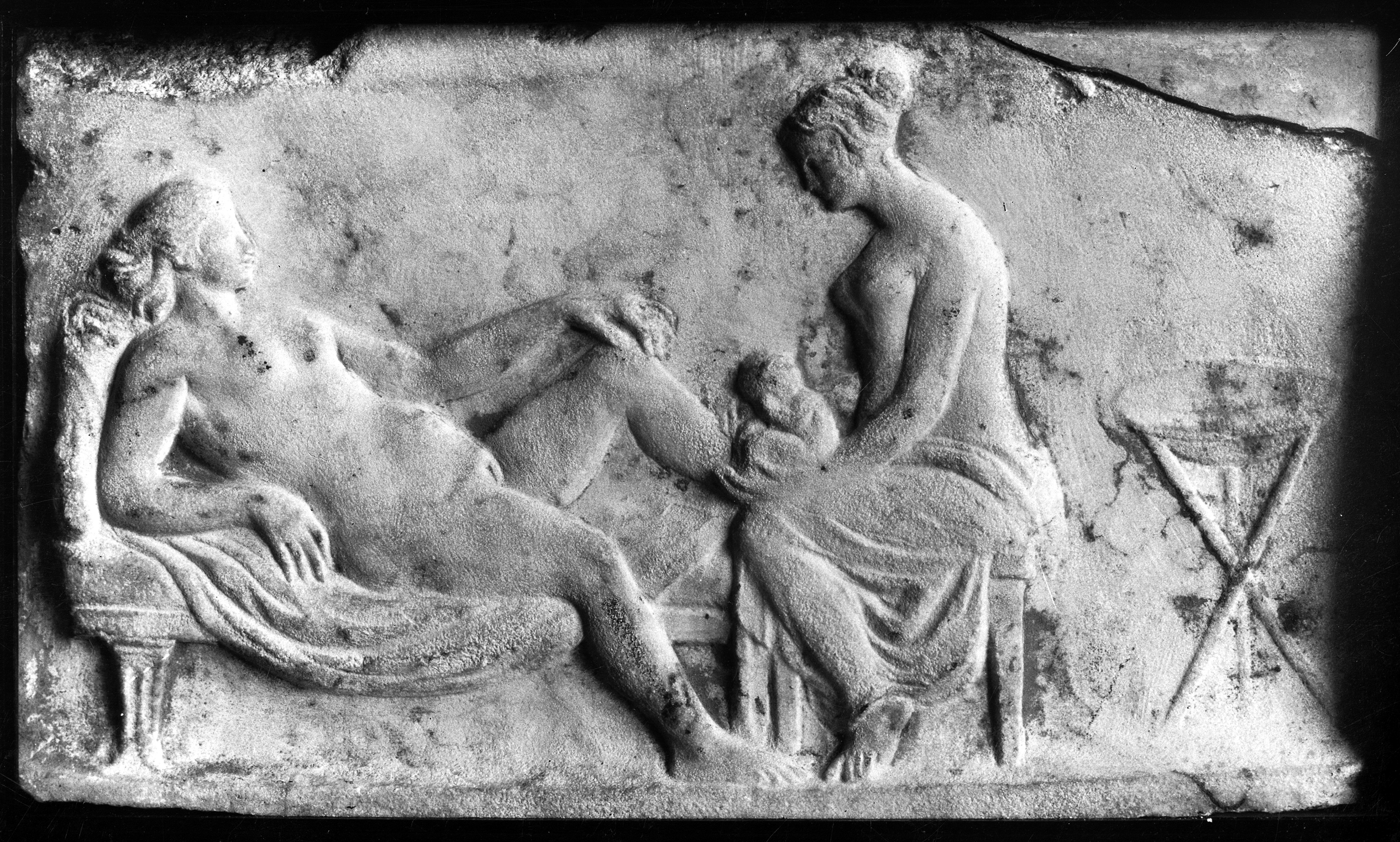 Ancient Roman relief carving of a midwife attending a woman giving birth. Wellcome Images Keywords: Rome; Obstetrics